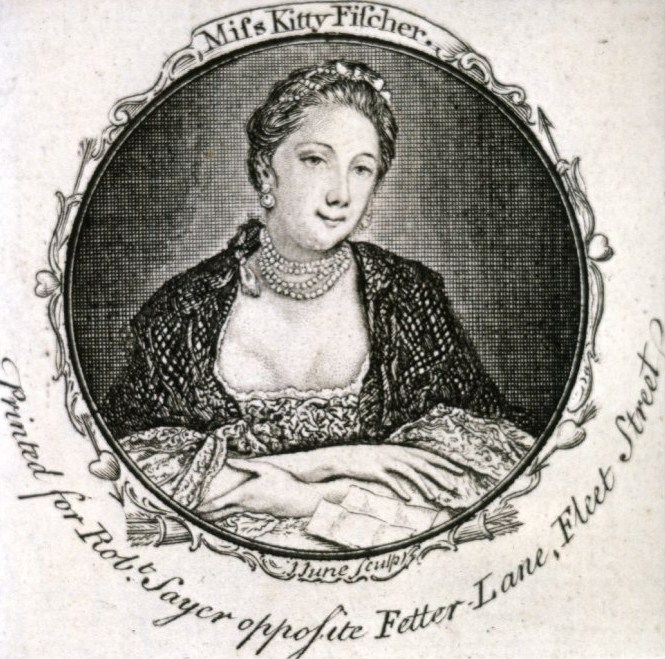 Watch-paper (to be trimmed to fit inside a pocket watch) of Kitty Fisher, English courtesan.